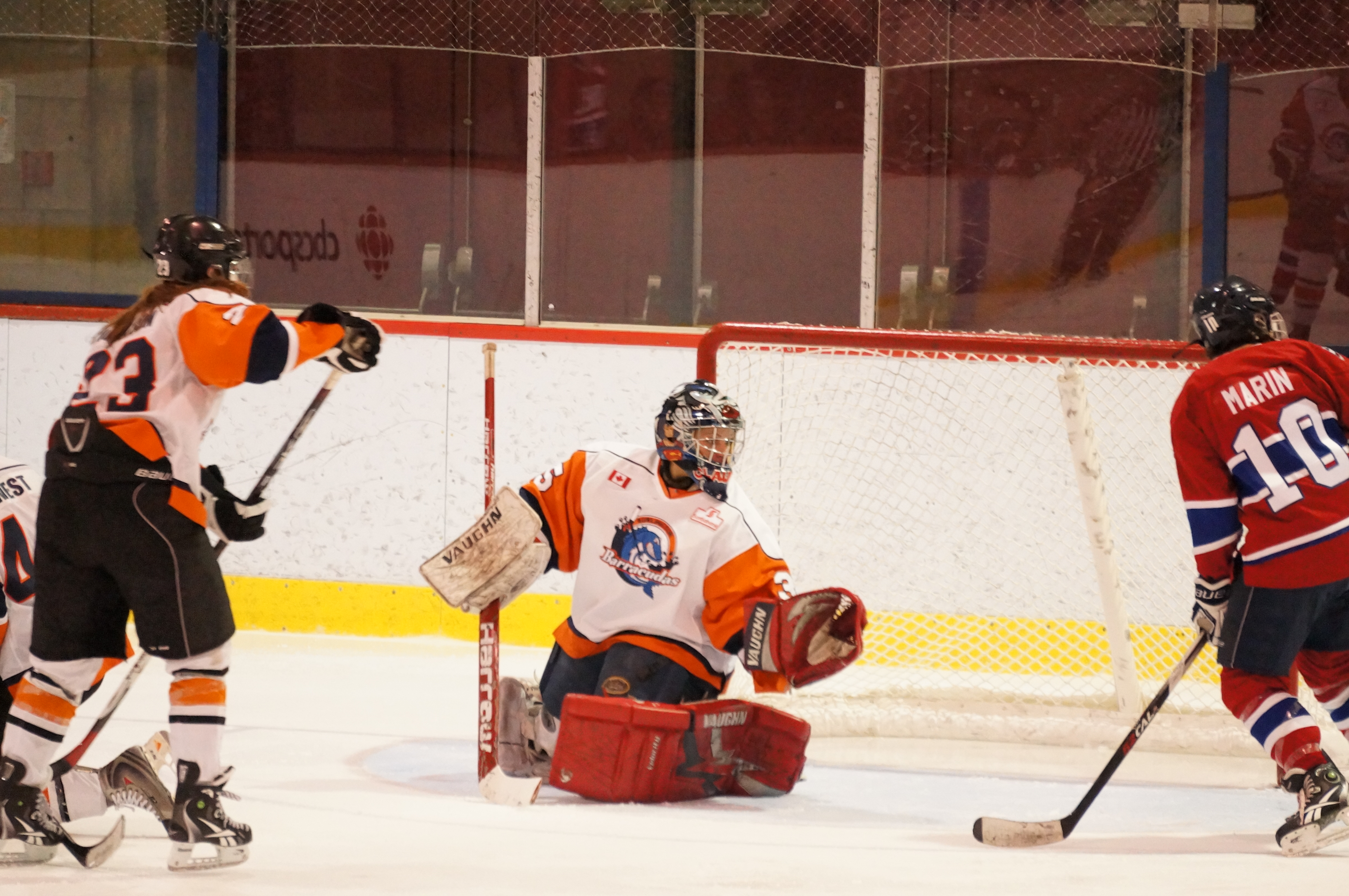 Christina Kessler - Goalie - Burlington Barracudas (CWHL)